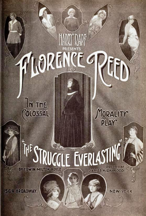 Advertisement for the American drama film The Struggle Everlasting (1918) with Florence Reed, on page 7 of the December 8, 1917 Exhibitors Herald.